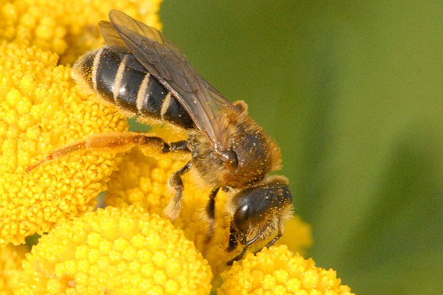 Halictus rubicundus from Commanster, Belgian High Ardennes .